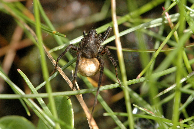 Pardosa pullata with egg sac, from Commanster, Belgian High Ardennes .